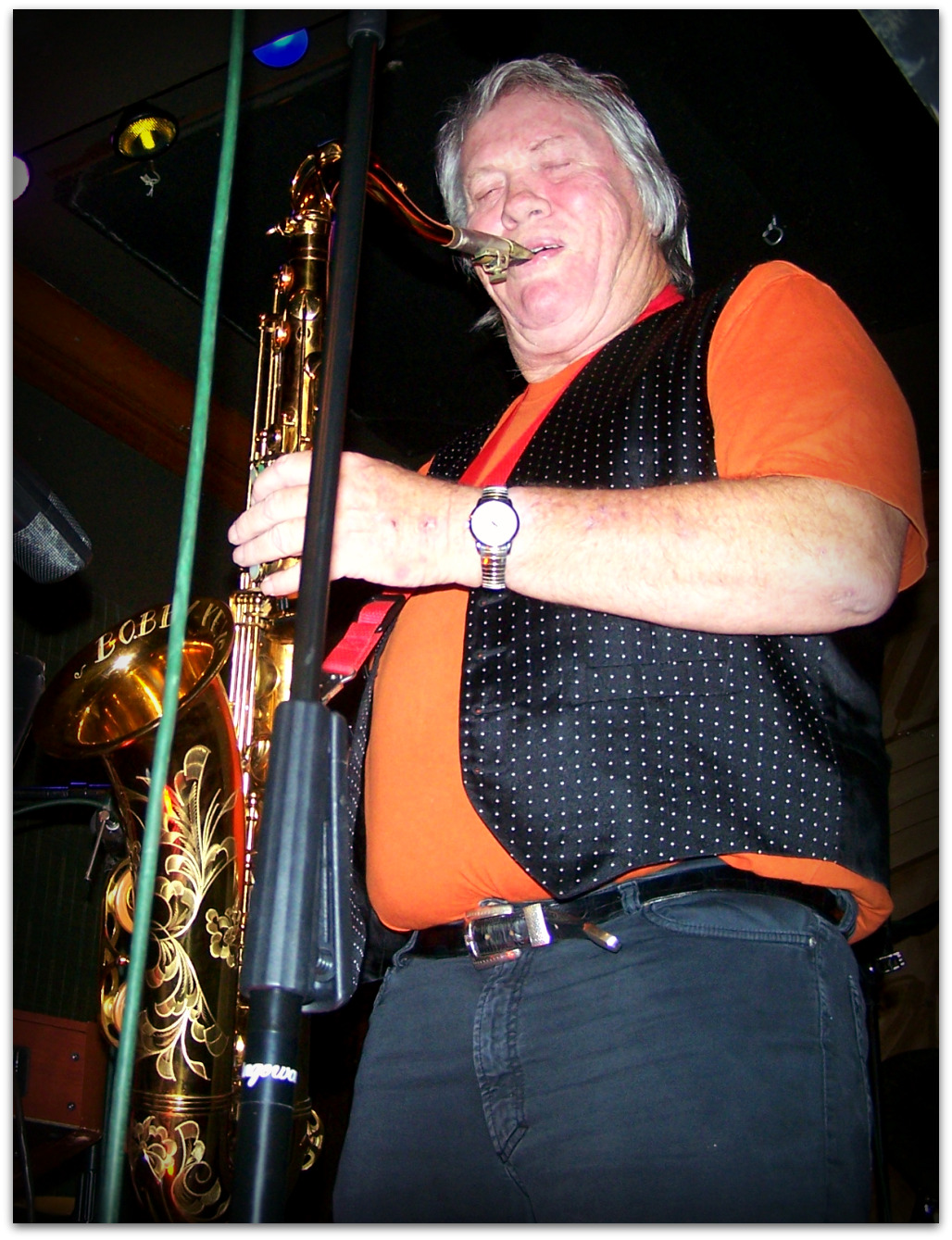 Bobby Keys; The Legendary Bobby Keys w/Tributosaurus, October 31, 2009 at Fitzgerald's.